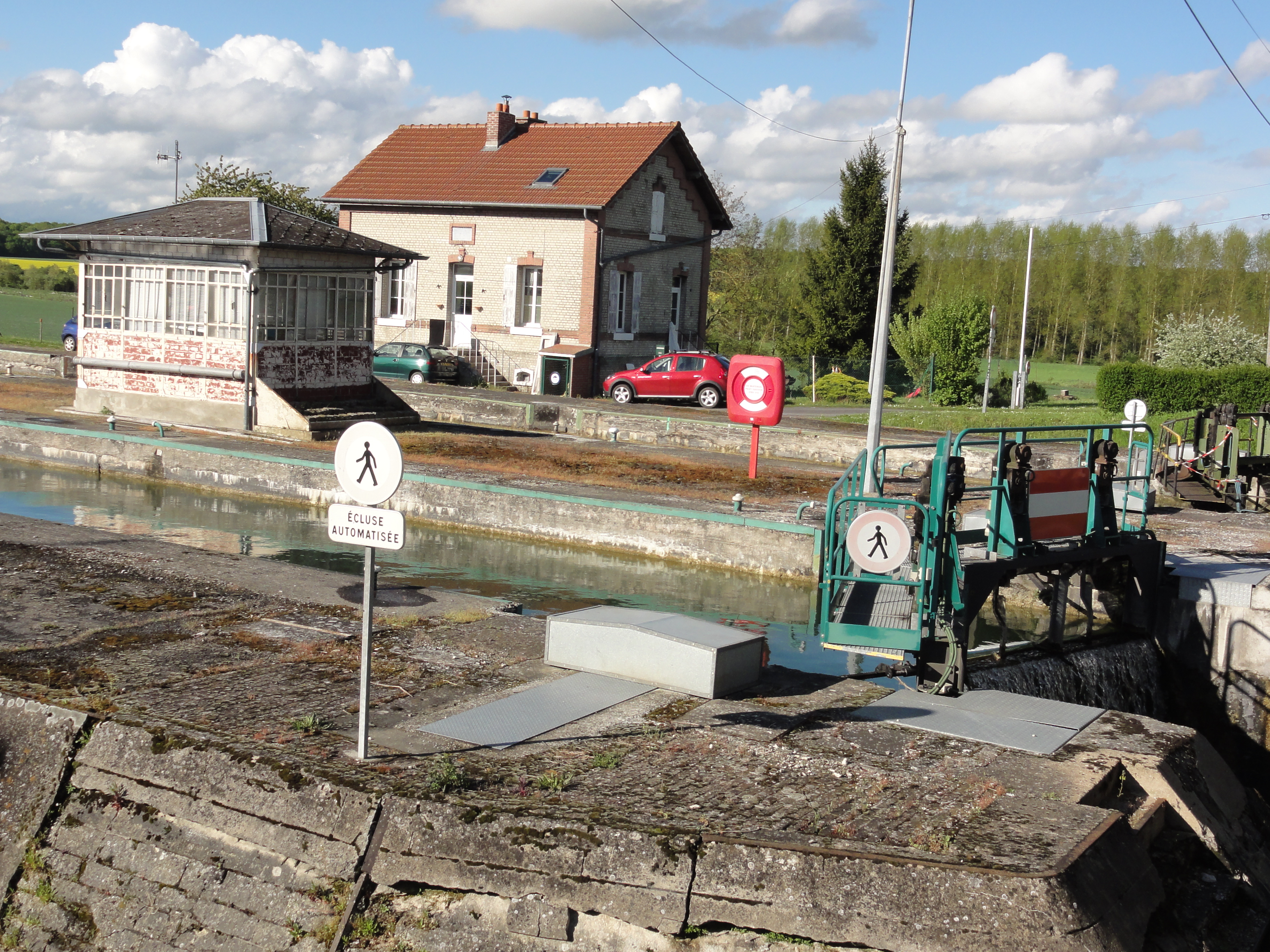 Mennessis (Aisne) Canal de Saint-Quentin, écluse